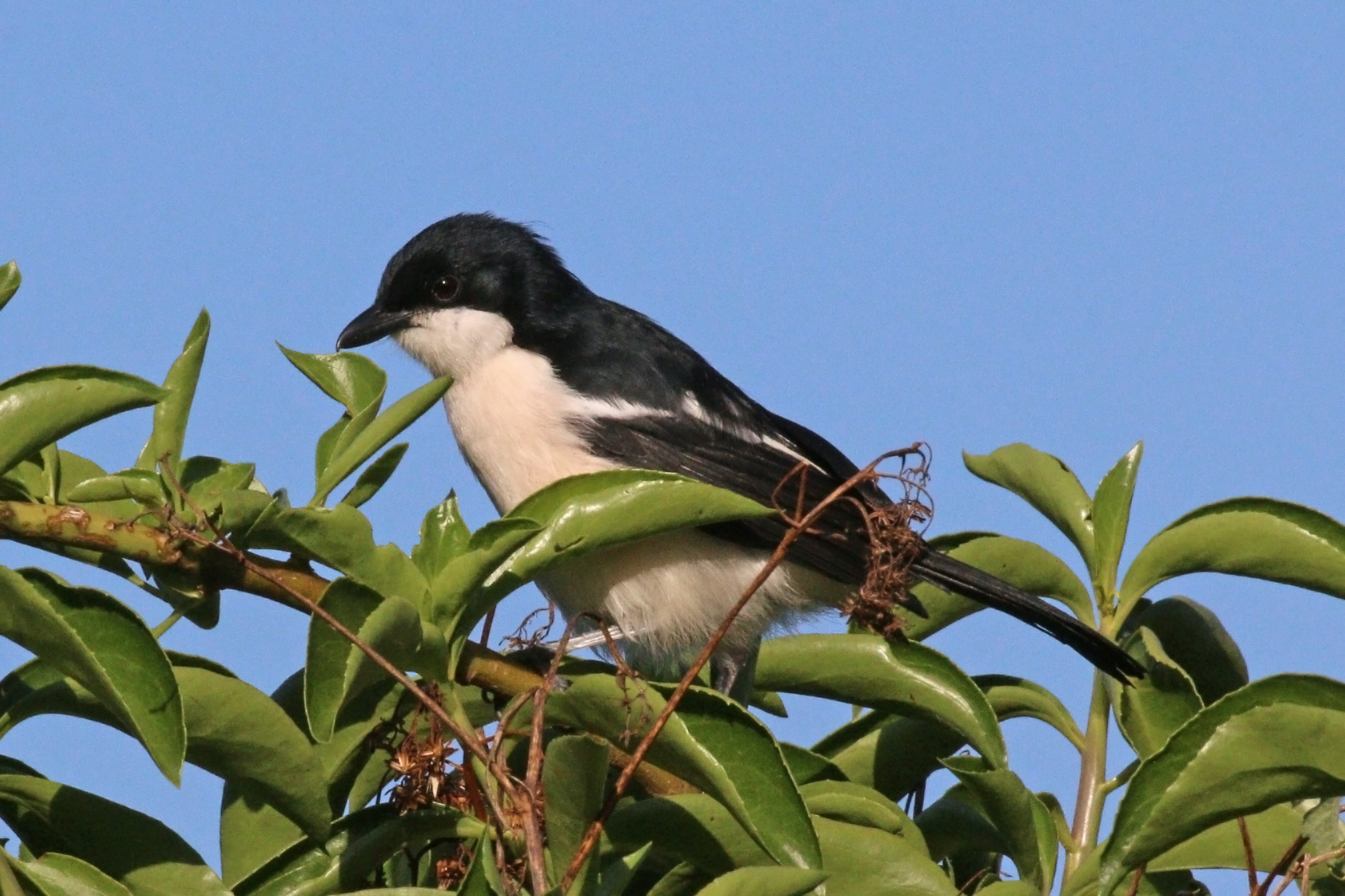 Tropical boubou (Laniarius major ambiguus), Soysambu Conservancy, Kenya